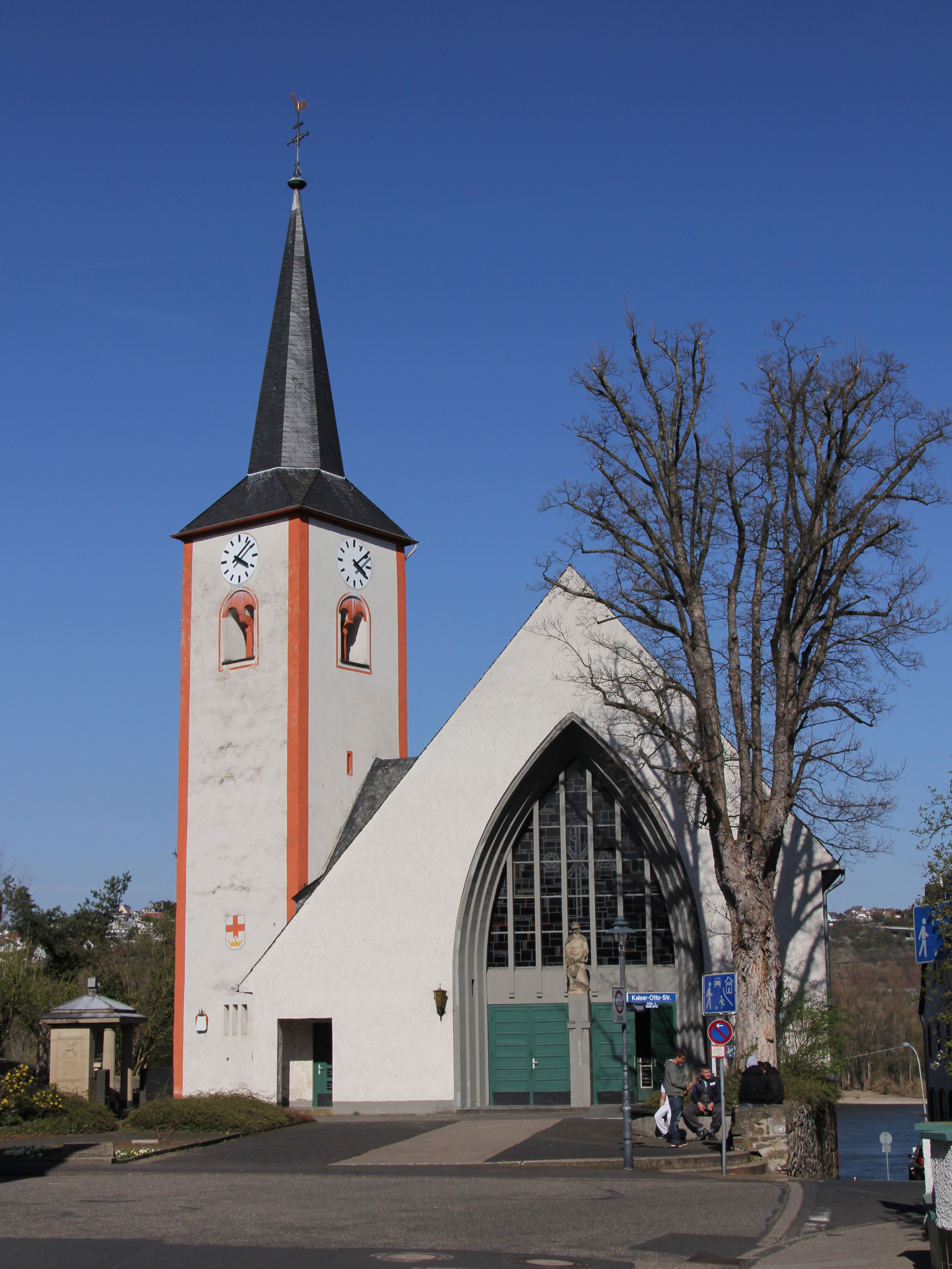 St. Martin church in Koblenz-Kesselheim